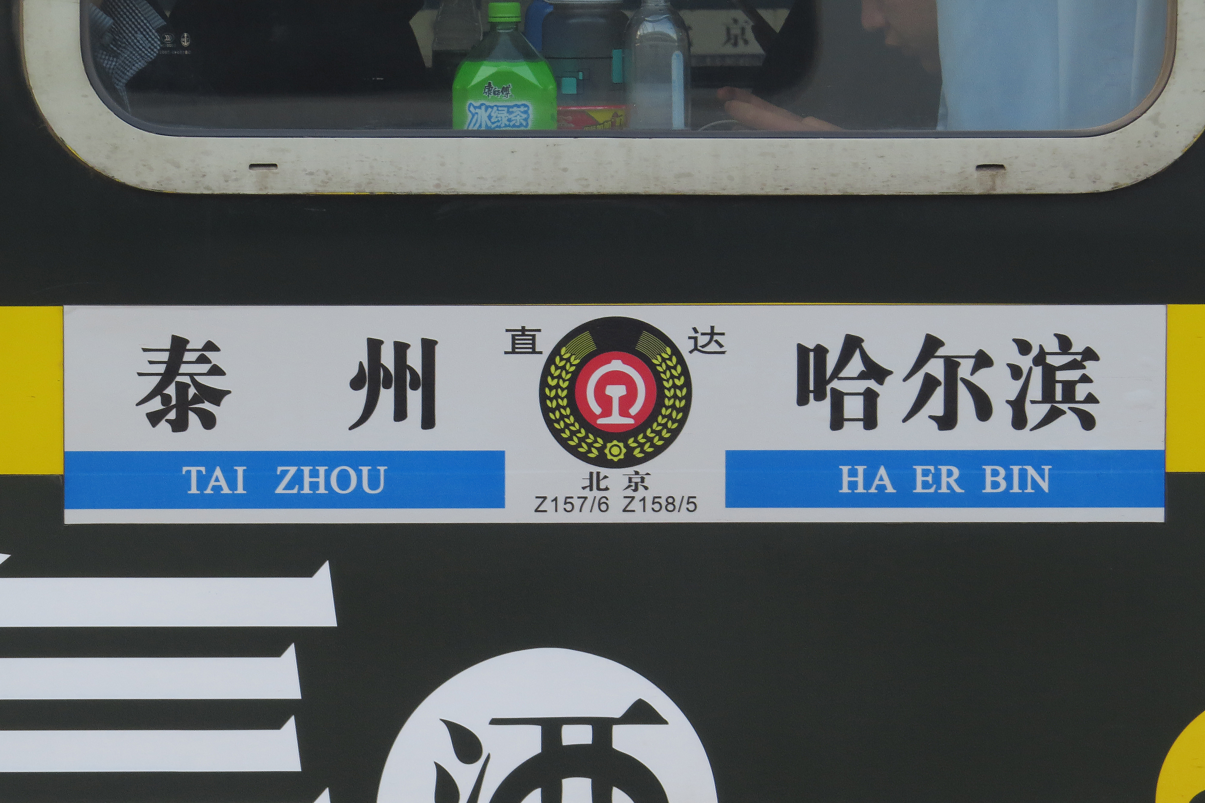 It's actually the first train from Taizhou, Jiangsu to Beijing (inaugurated in 2005).